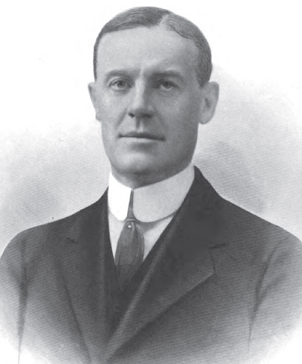 an Ohio politician